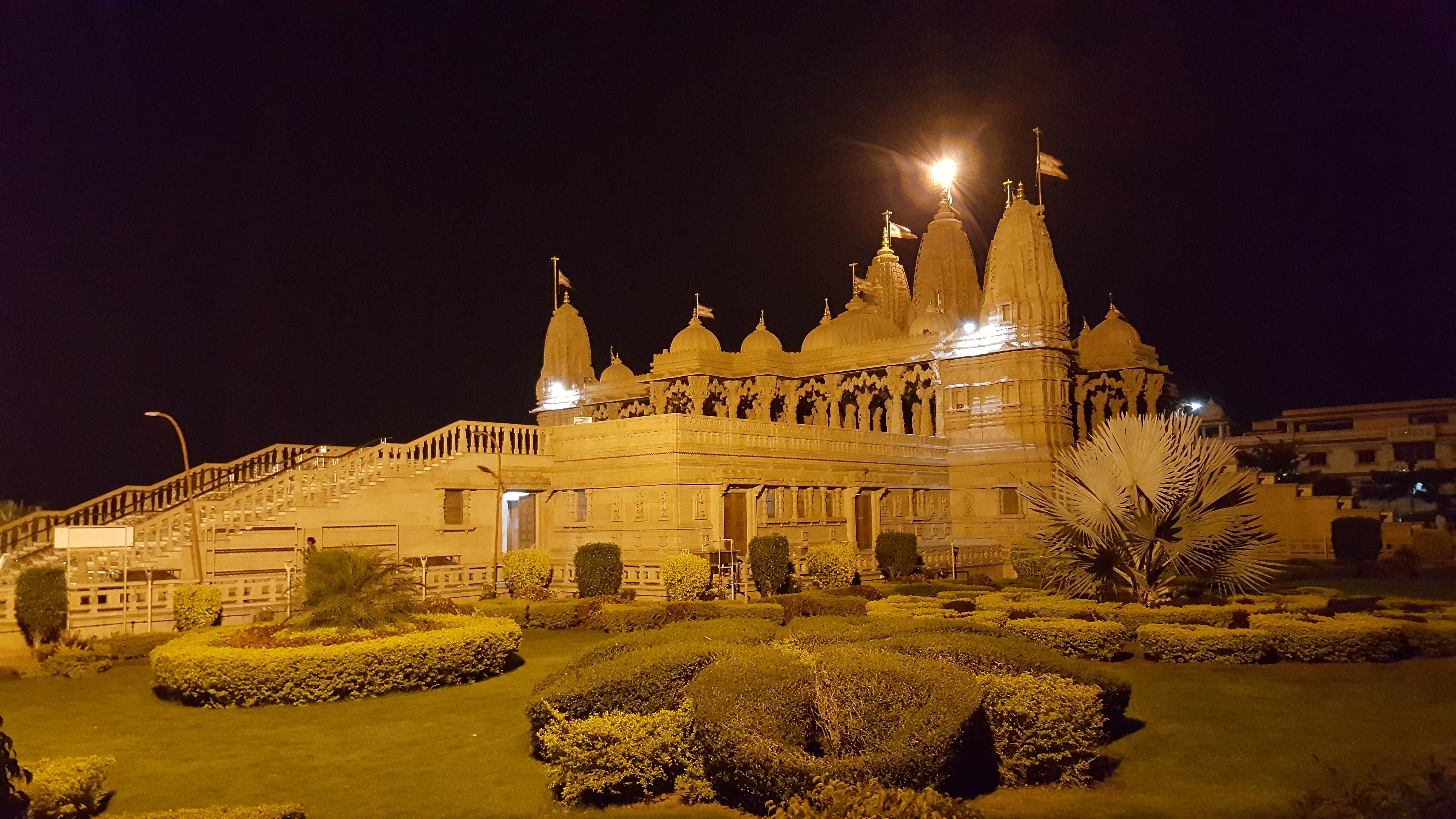 BAPS Swaminarayan Temple, Nagpur